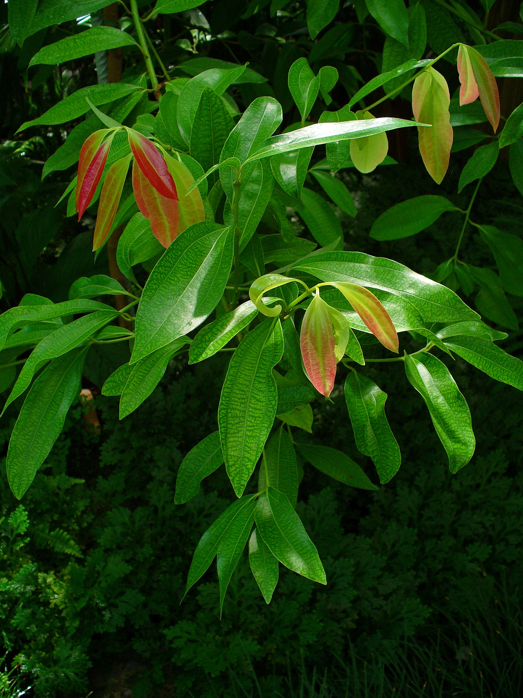 Cinnamomum verum, Lauraceae, Cinnamon, leaves; Botanical Garden KIT, Karlsruhe, Germany. The bark is used in homeopathy as remedy: Cinnamomum (Cinna.)